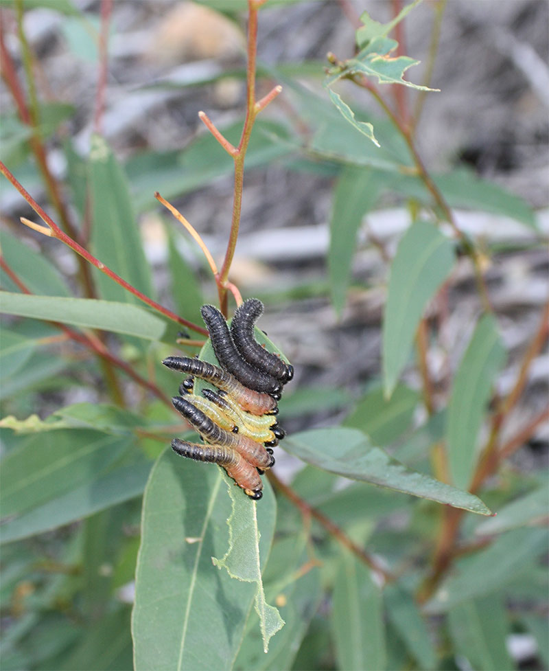 Larvae of Spitfire Sawfly, Perga affinis, on Eucalypt. Near Tahmoor, NSW, Australia.